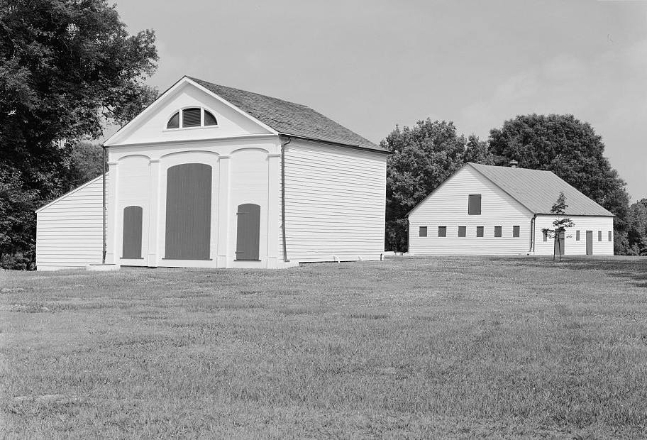 Melrose, Carriage House, 1 Melrose-Montebello Parkway, Natchez, Adams, MS. View looking northeast, with stable in background.